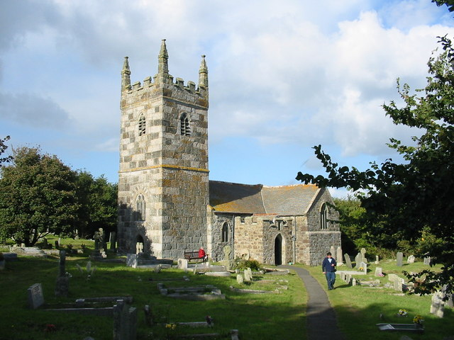 St Wynwallow's Church Landwednack Cornwall